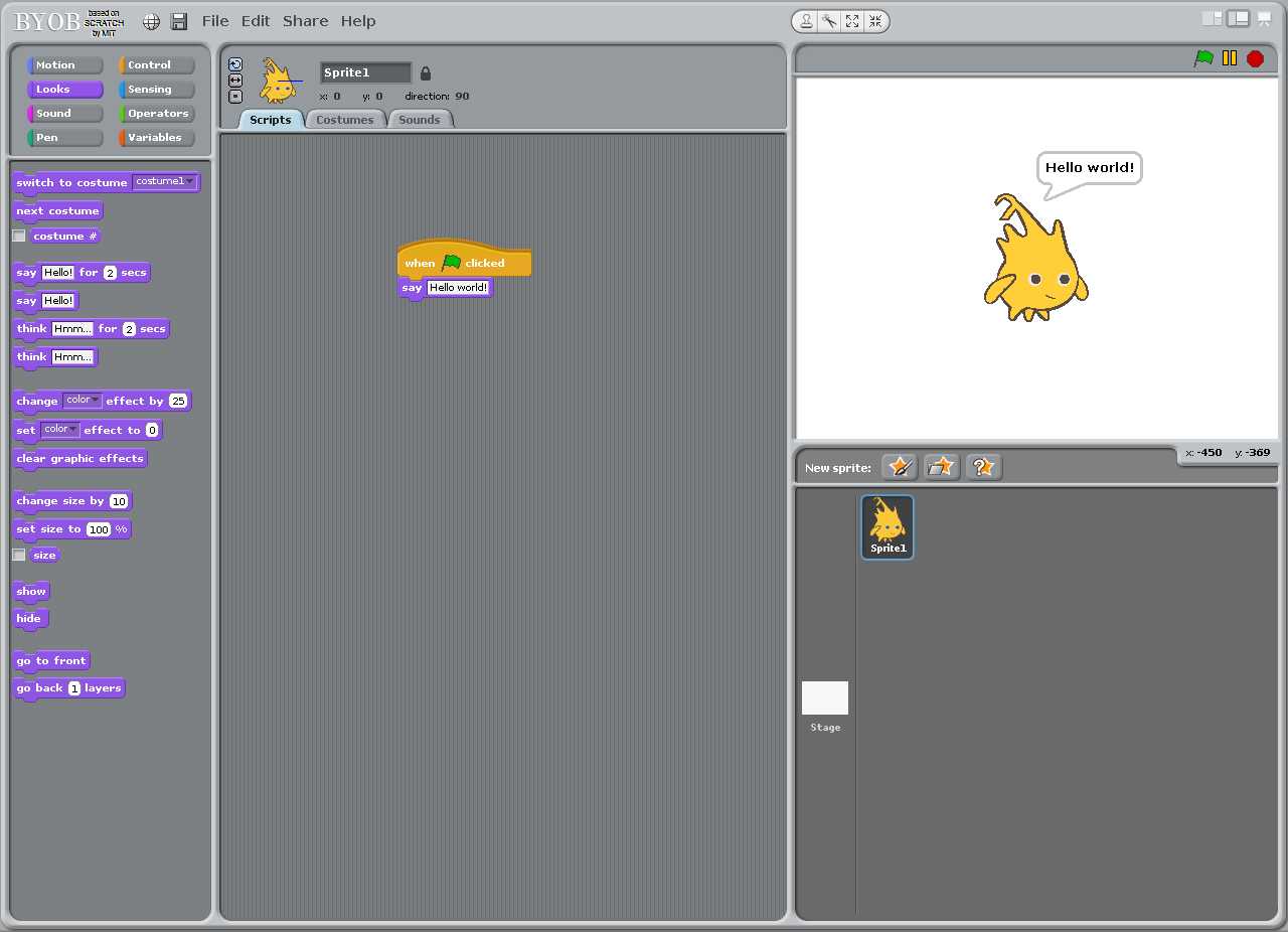 Hello world script in BYOB (Build Your Own Blocks) version 3.1.1